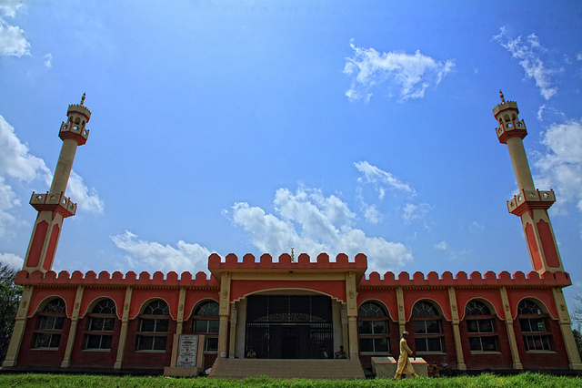 Central Mosque at Jahangir Nagar University ,Savar